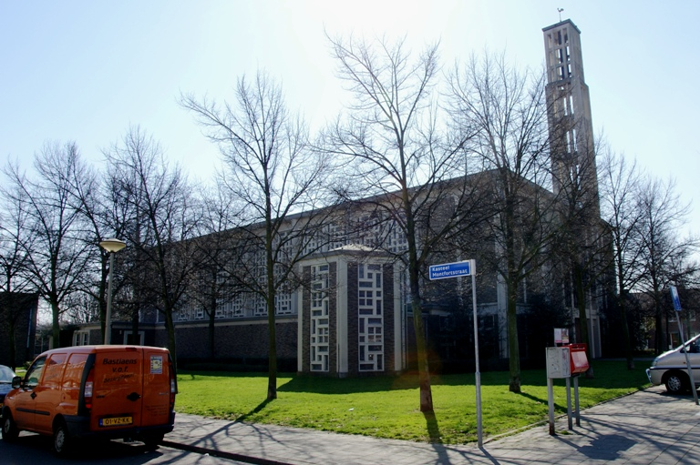 Church of Antonius van Padua, Nazareth-Maastricht, The Netherlands